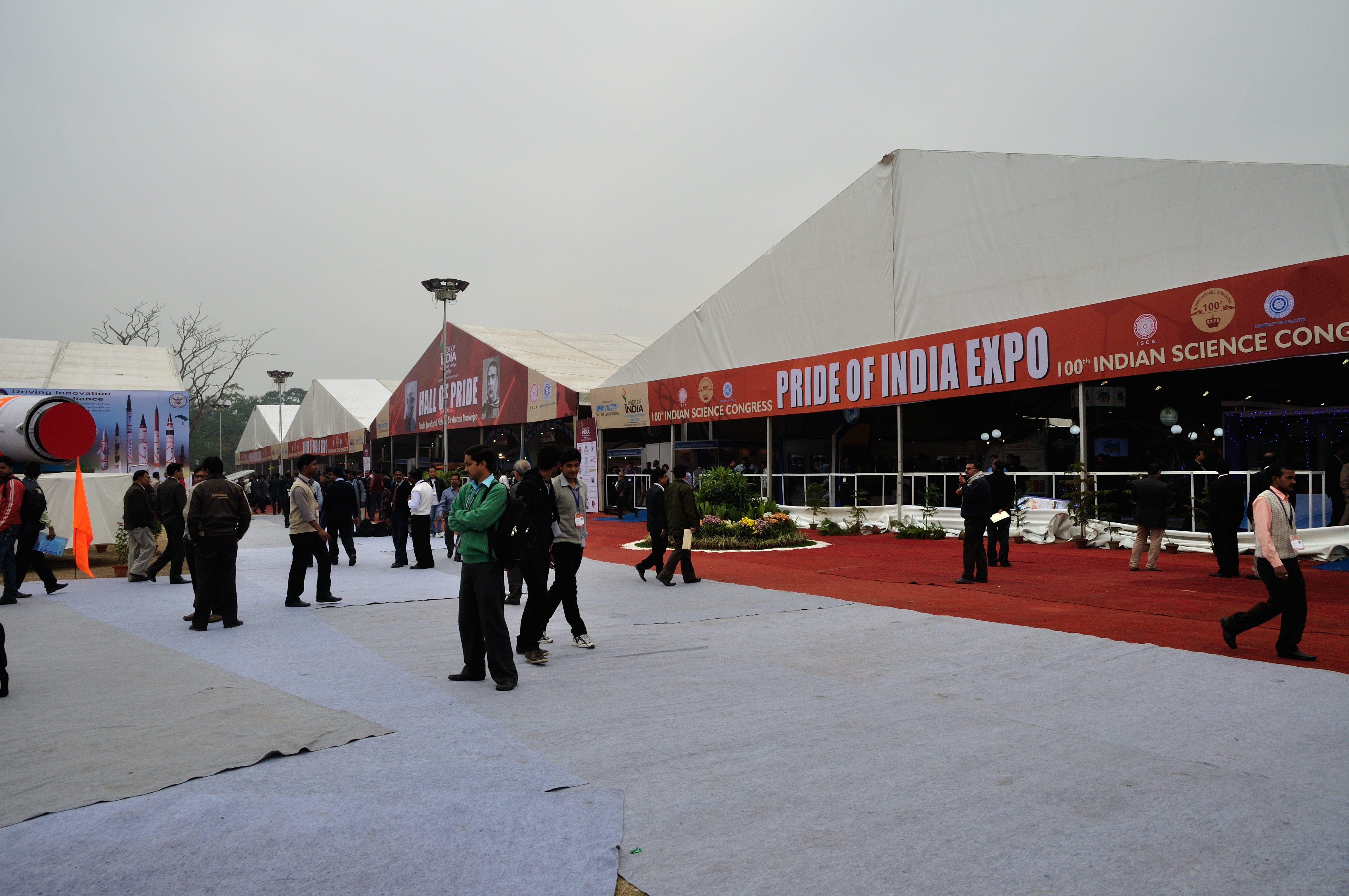 The 'Pride of India' exhibition, organised by the Indian Science Congress Association on the occasion of the 100th Indian Science Congress in Kolkata.